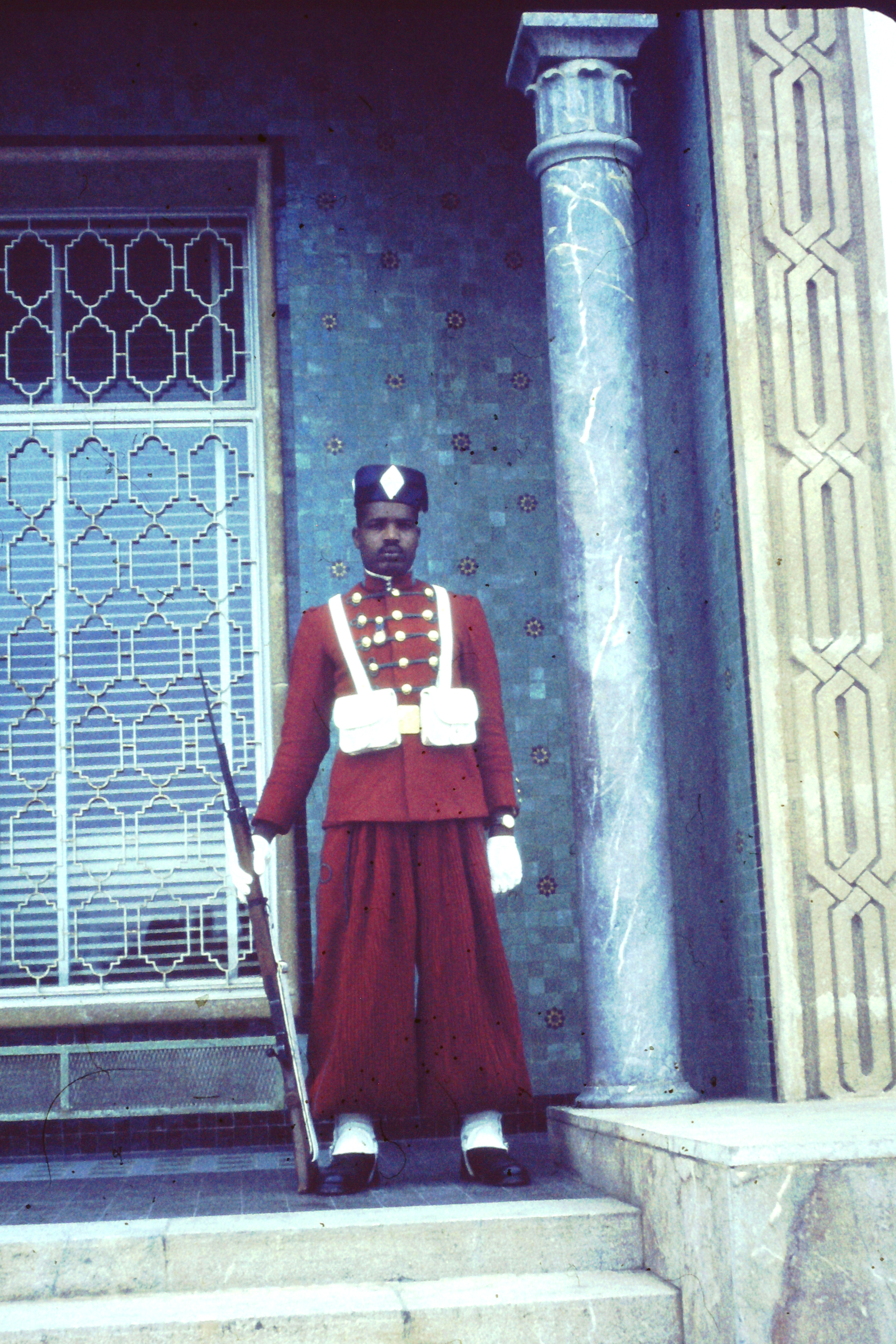 royal guard....as seen in Rabat.